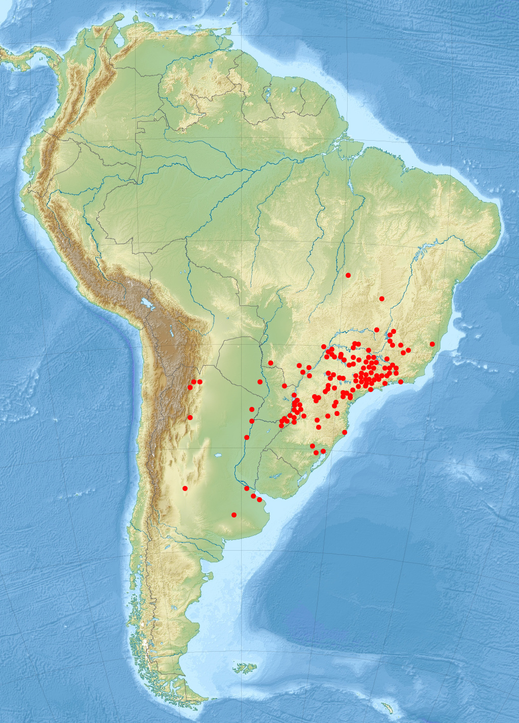 Distribution map of Phoneutria nigriventer